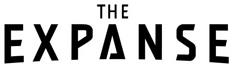 The logo of The Expanse (TV series)